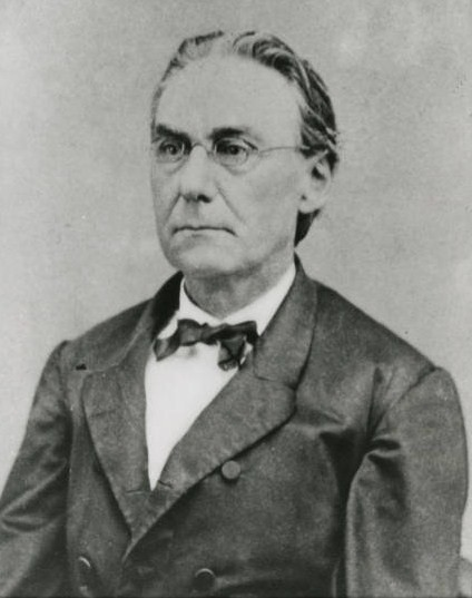 Image of David Hunter Riddle (1805-1888)